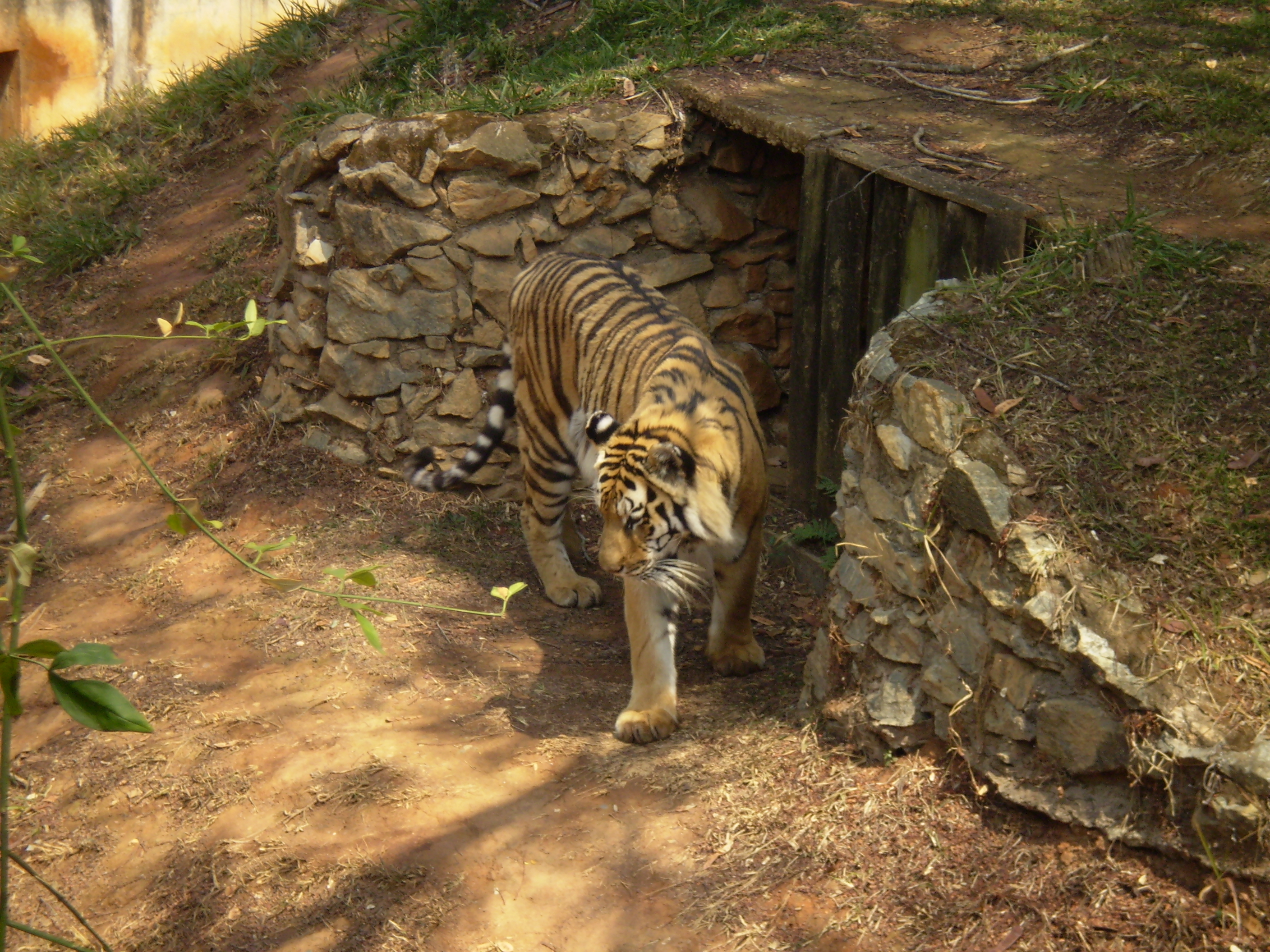 Tiger in Belo Horizonte Zoo - MG - Brazil